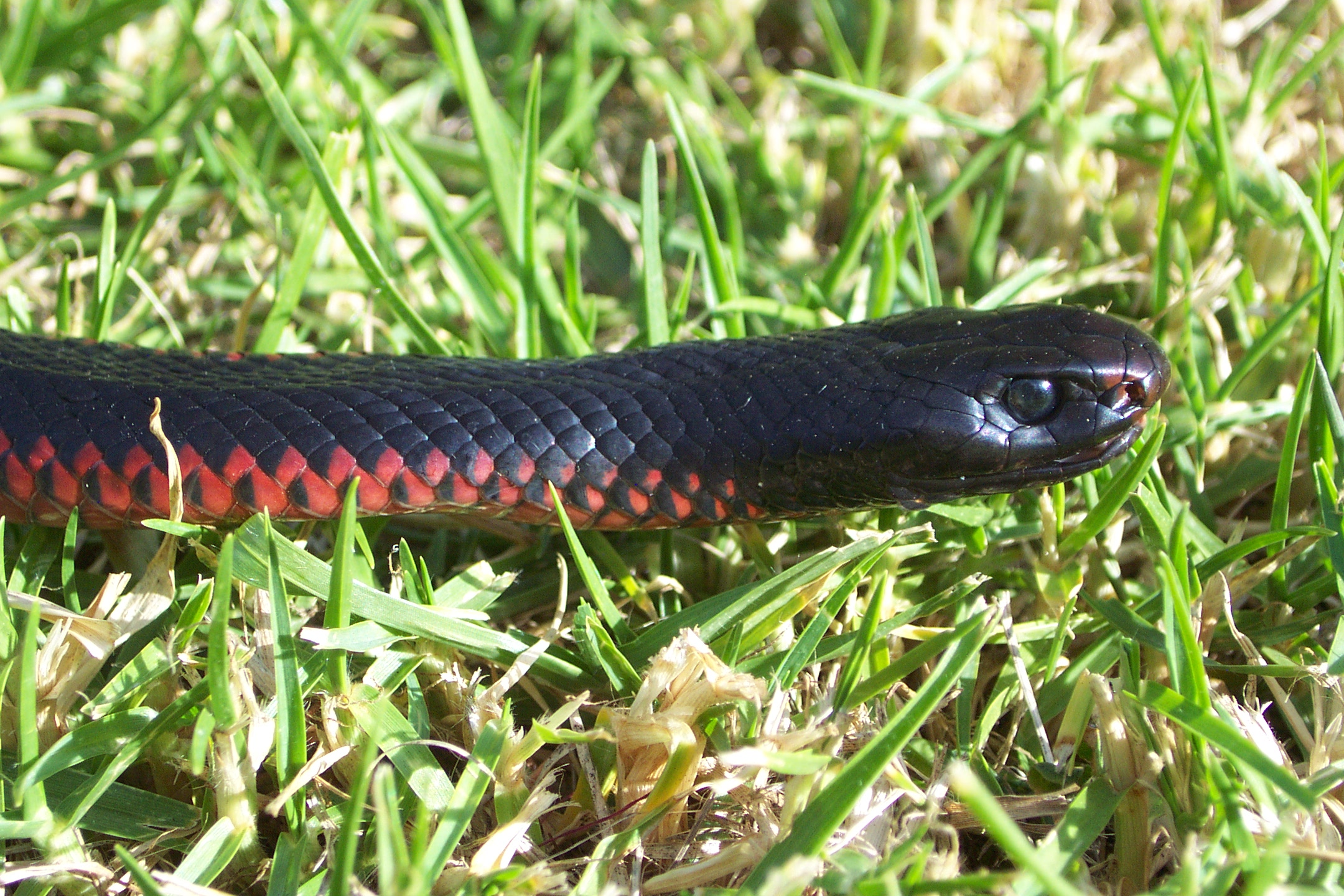 Pseudechis porphyriacus (roadkill), found between Marlo and Cape Conran, Victoria, Australia; tooth exposed